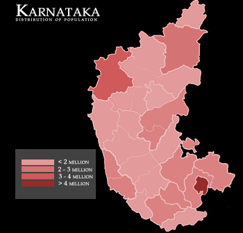 Distribution of Population in Karnataka. Self Made. Source of Data: 2001 Census of India.